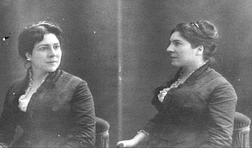 Portrait of French actress Miss Agar by Nadar